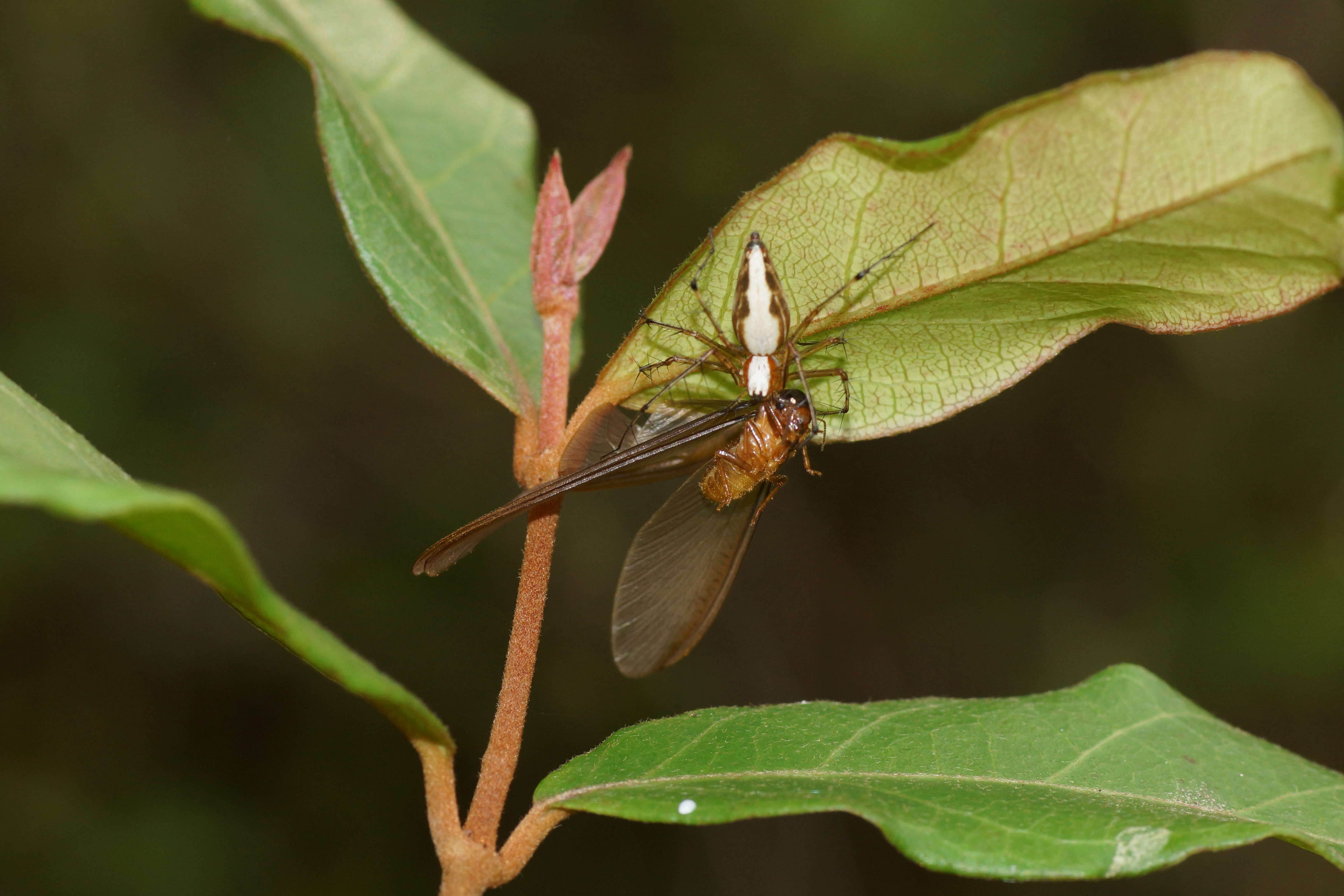 Oxyopes shwet